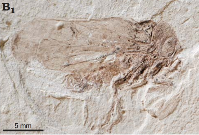 Sanmai kongi from the upper Middle–lower Upper Jurassic Daohugou beds. Paratype STMN48-1801